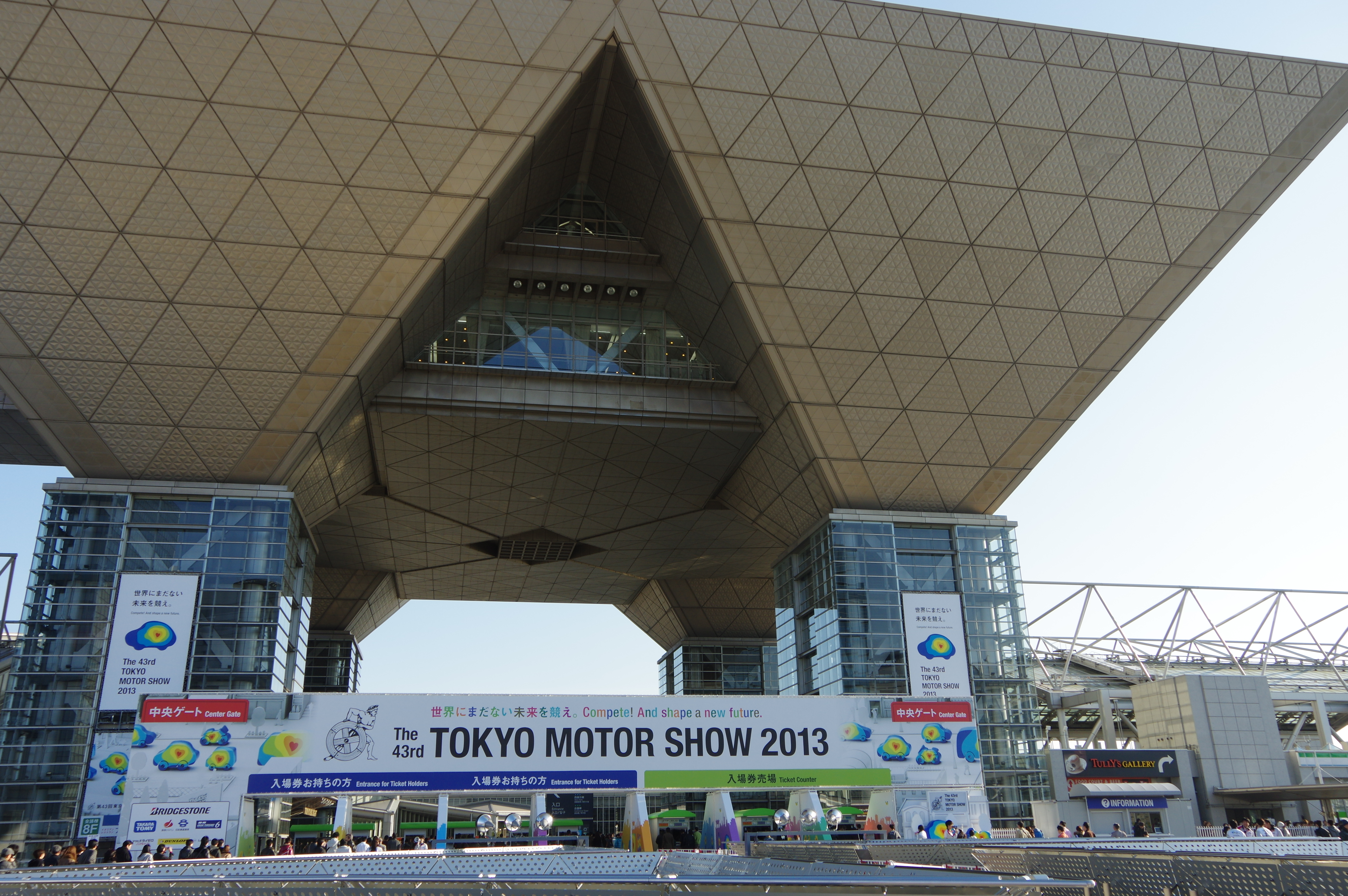 The 43rd Tokyo Motor Show 2013_PENTAX K-3_028